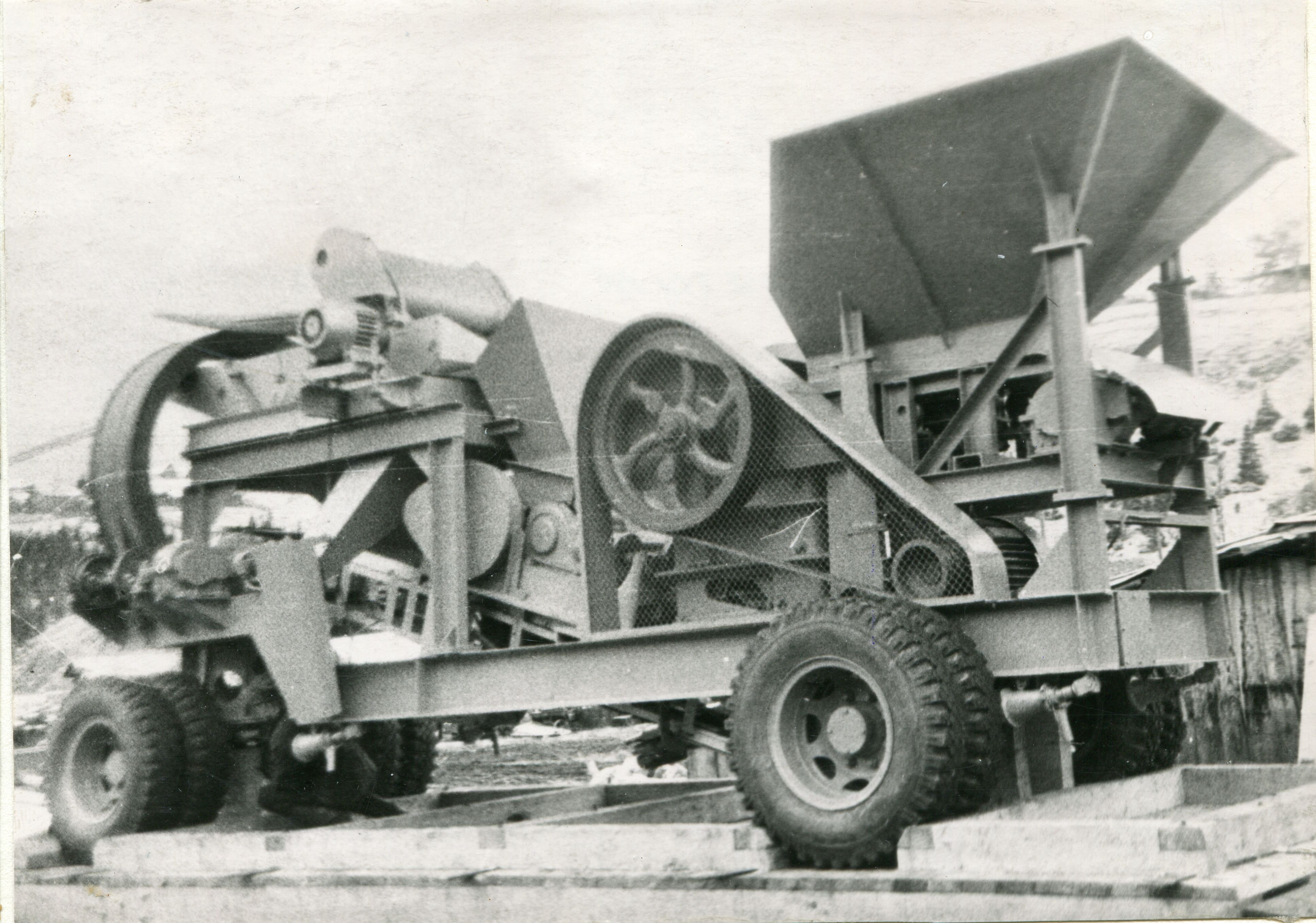 С - 349 А